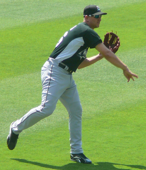 Please attribute photo with author's name if used somewhere other than Wikipedia. 18:35, 4 August 2008 . . Chrisjnelson . . 590×688 (421 KB)